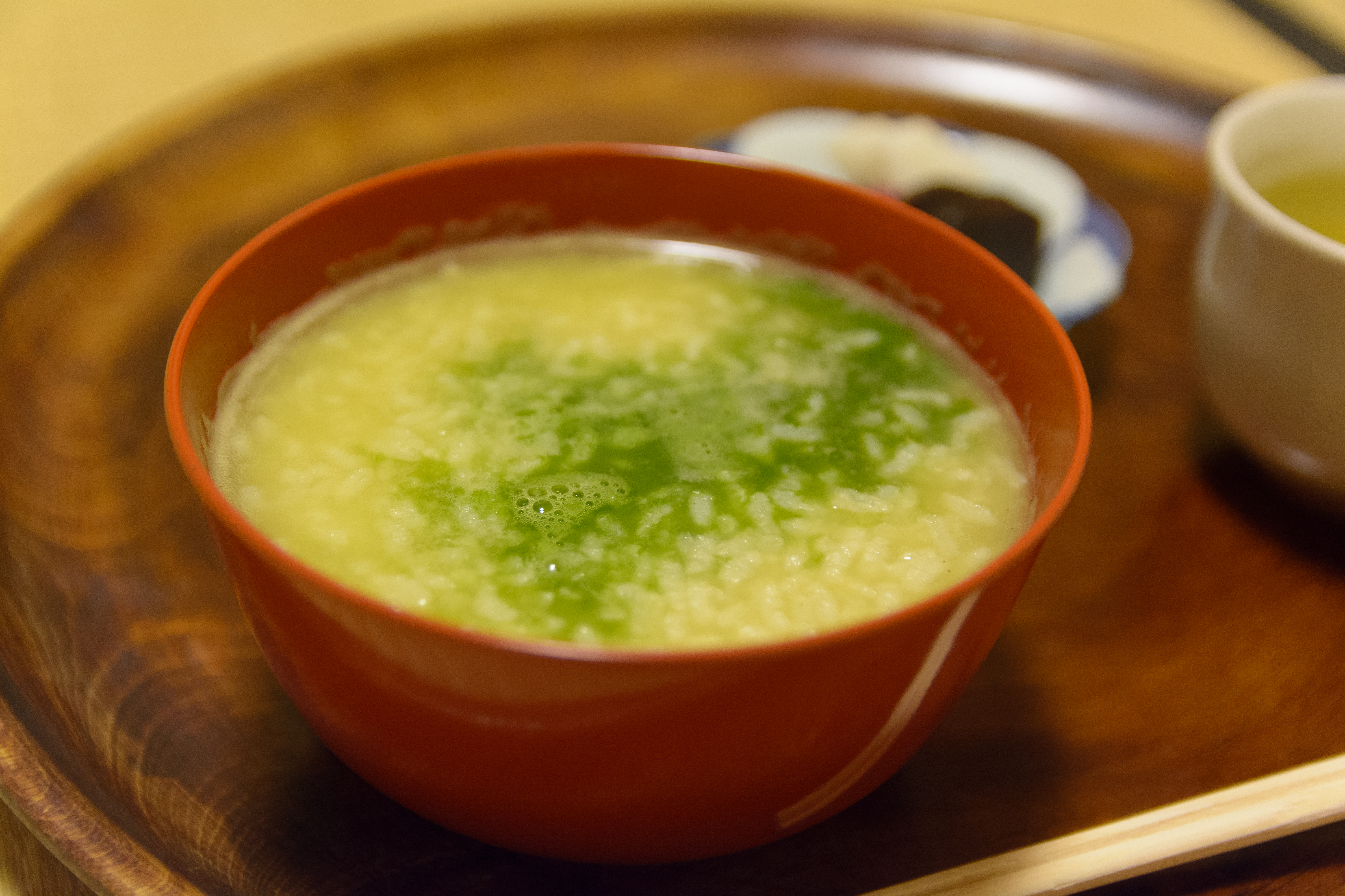 Congee of green tea as a traditional food of Nara.